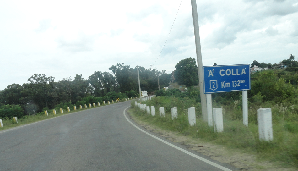 Arroyo Colla, Rosario del Colla, Colonia Uruguay DSC06934 25%